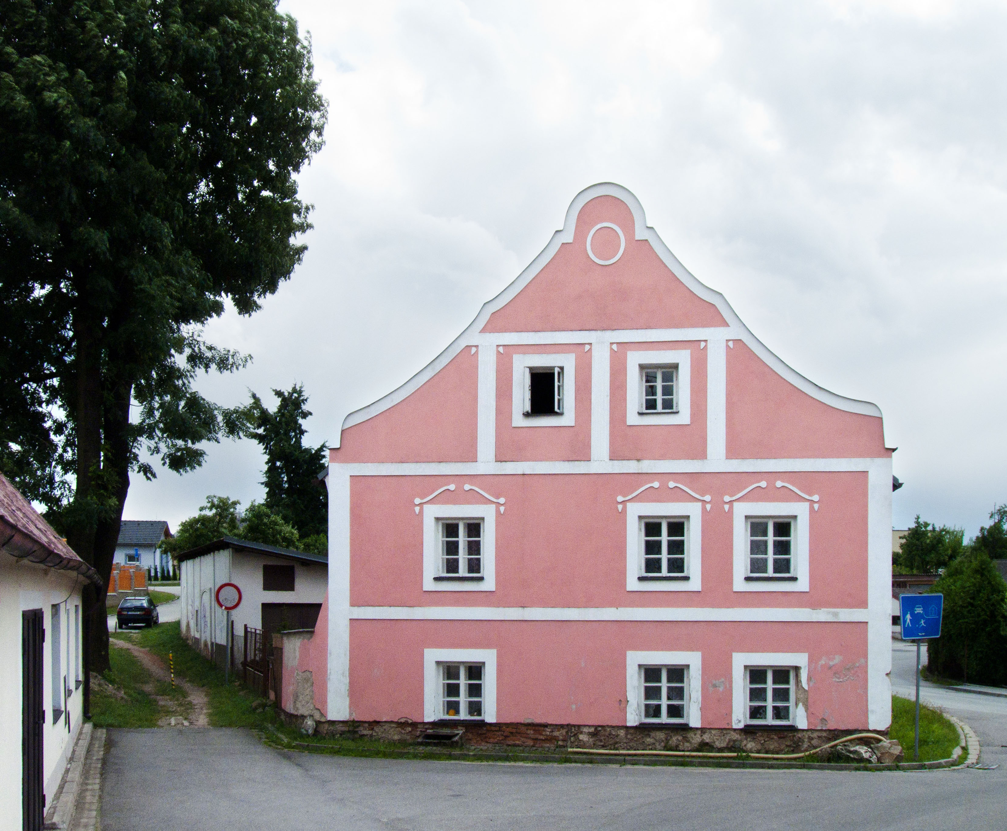 House No 39 in the village of Adamov, České Budějovice District, Czech Republic - former town hall.